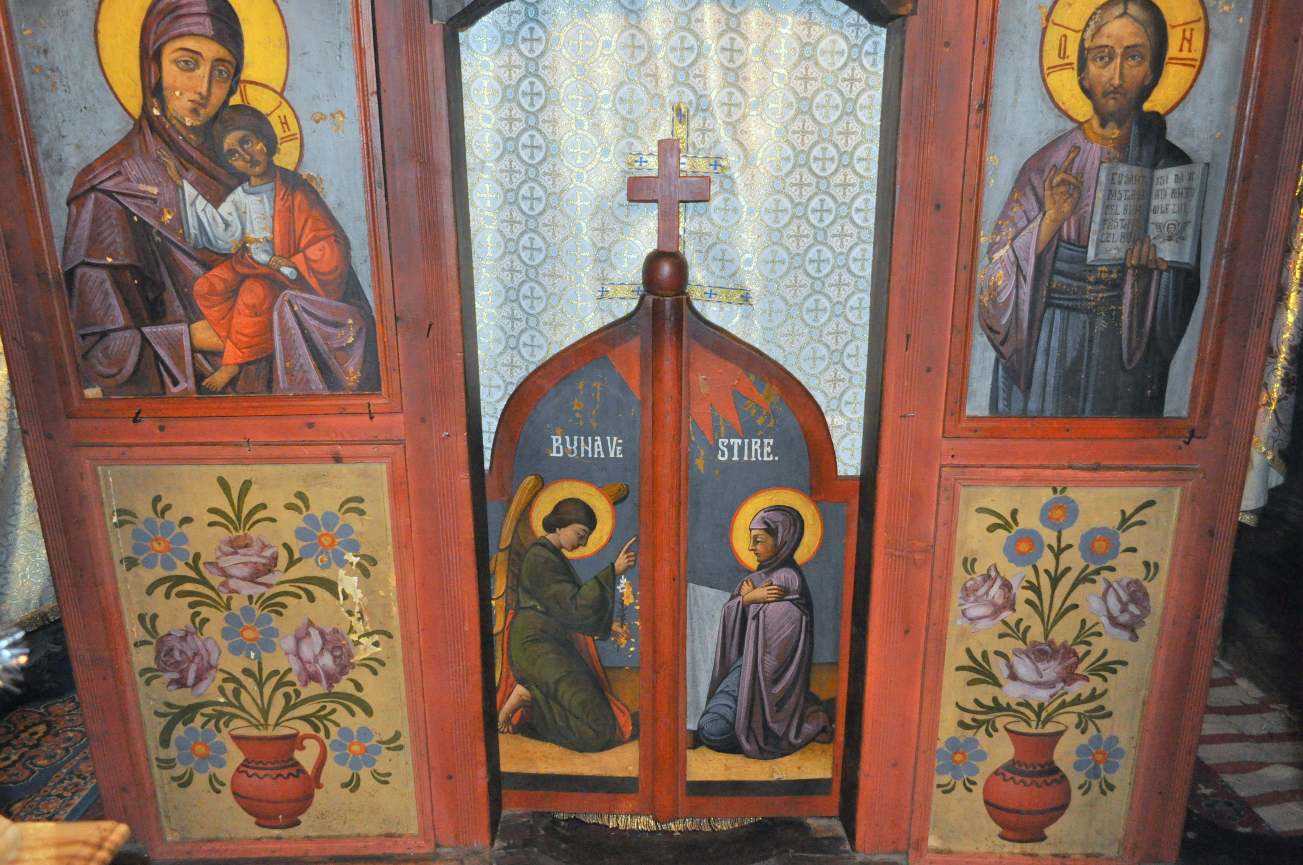 Saint George's church in Rugi, Gorj county, Romania